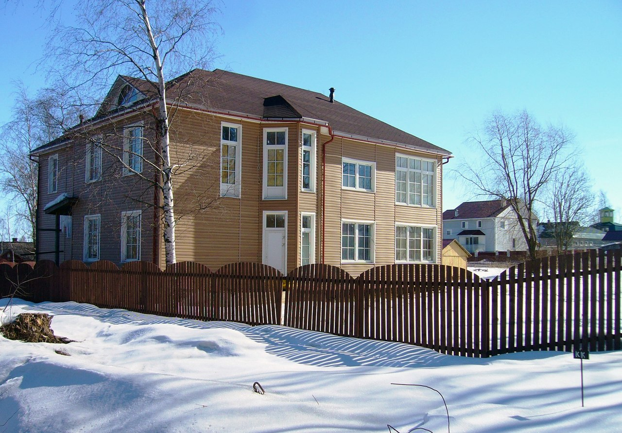 Wooden house in Petrozavodsk, Karelia Region, northwest Russia.